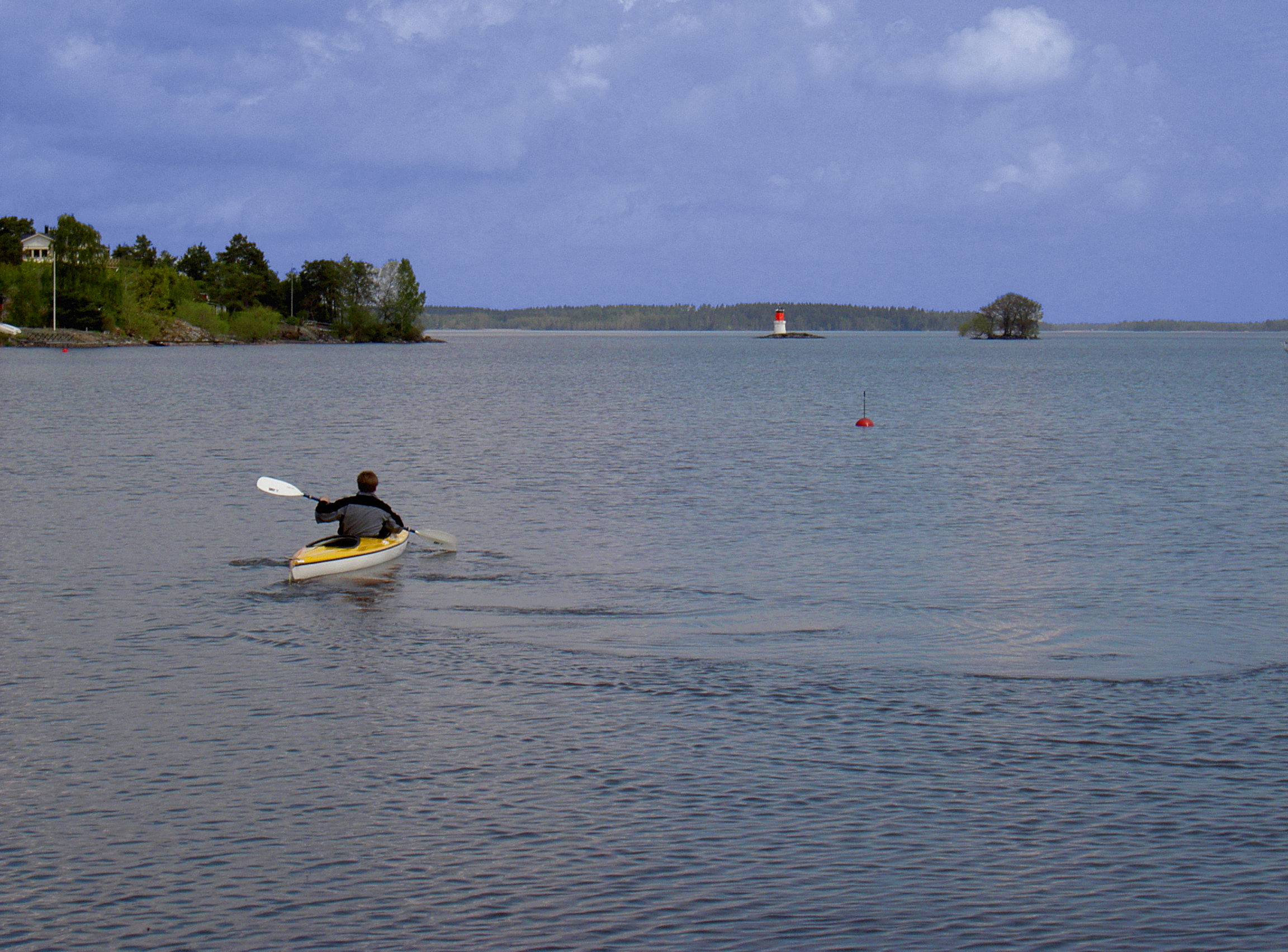 View of Mälbyviken, a bay in lake Mälaren